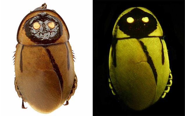 Lucihormetica luckae; daylight image left, fluorescence image right